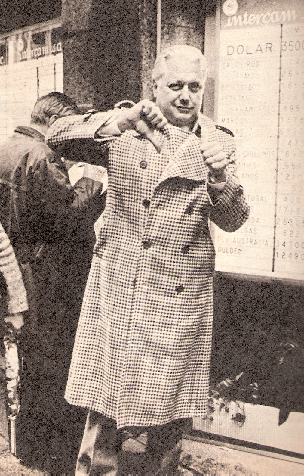 Hector Olivera, 1982